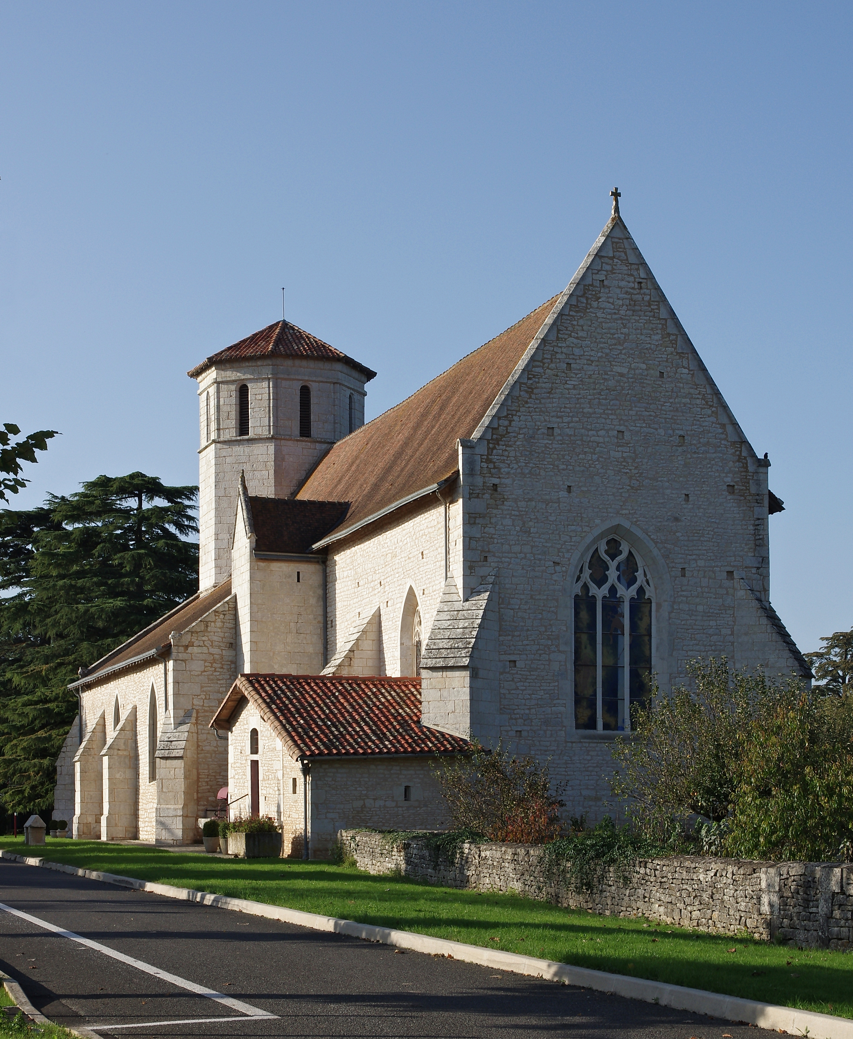 Church of Blanzay (XIIth and XVth century) with a roman bell tower and a gothic chevet. Blanzay, Vienne, France.